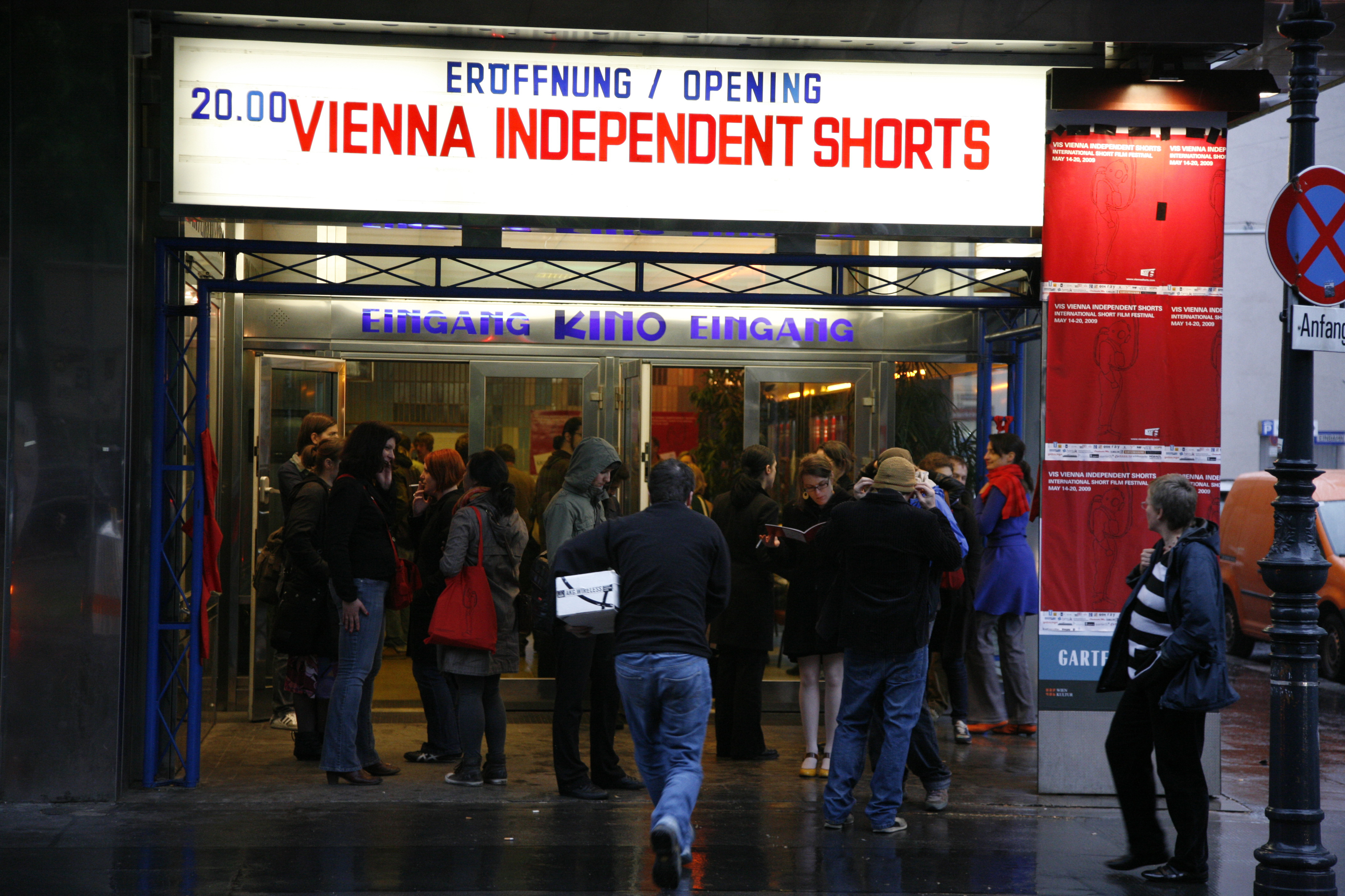 VIS Vienna Independent Shorts 2009: opening night of the film festival at the Gartenbaukino in Vienna.